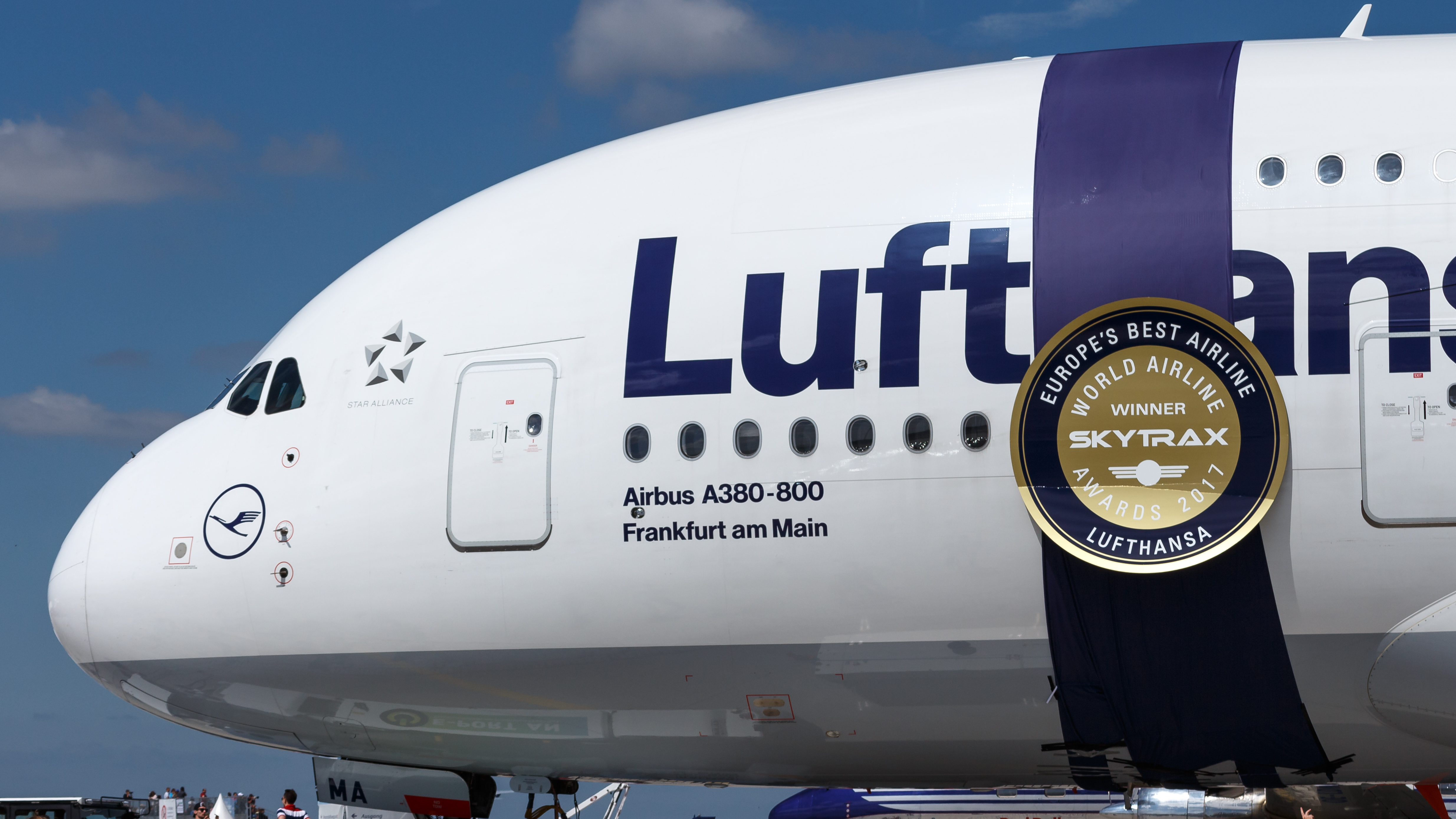 Lufthansa Airbus A380-841 at Frankfurt Airport